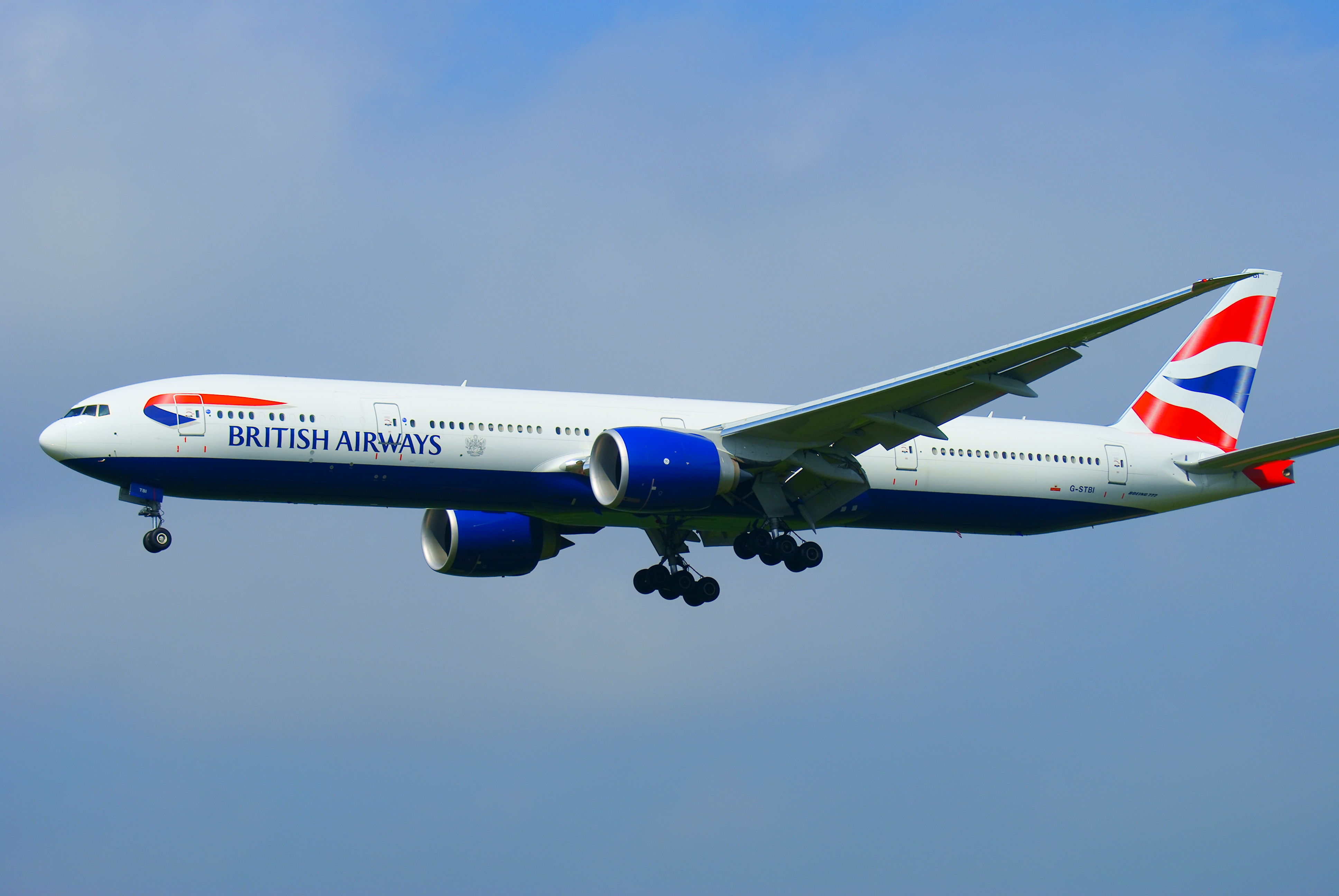 British airways Boeing 777-336ER was landing at Tokyo Narita Airport.